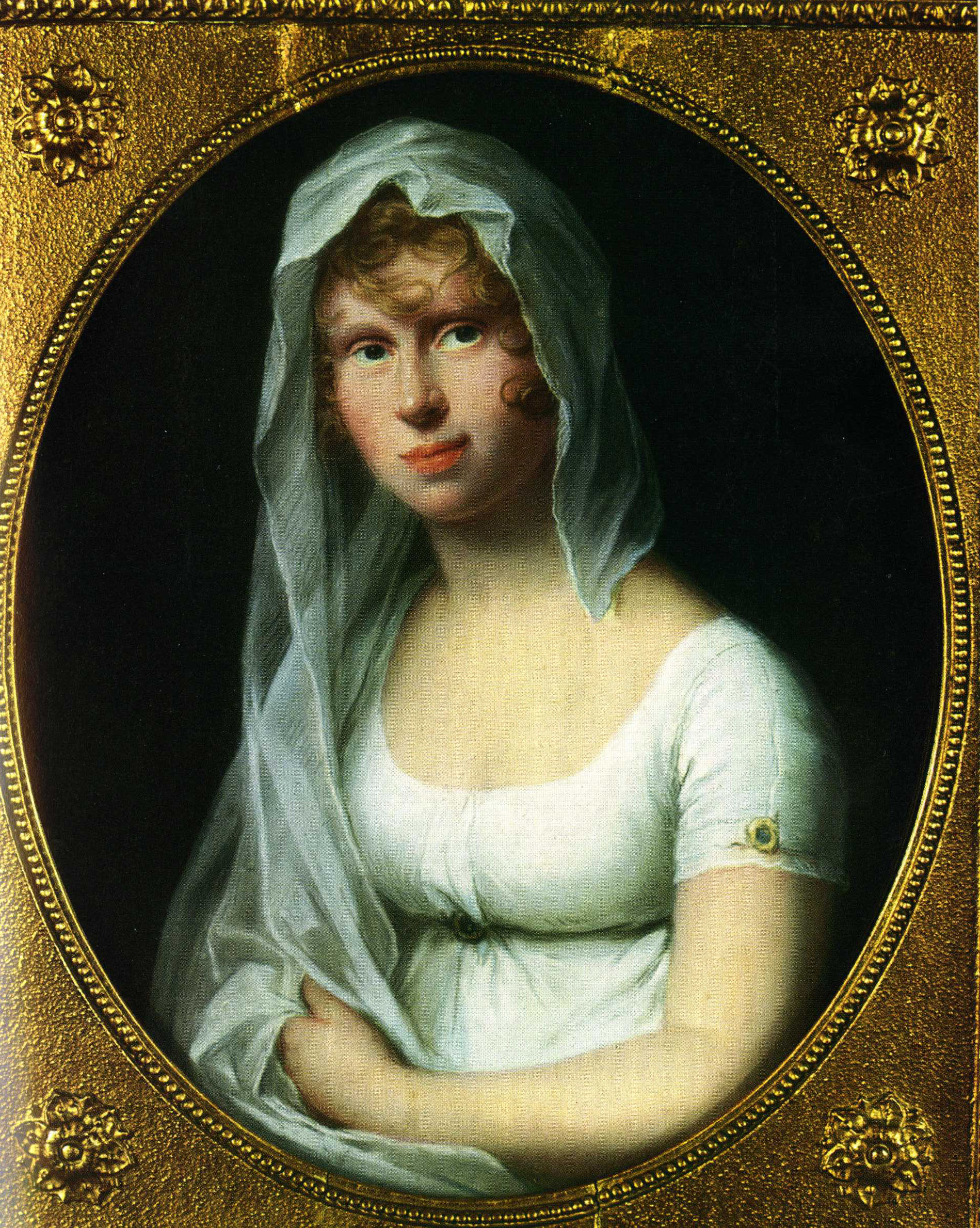 Charlotte Vieweg (1774-1834) depicted in the neoclassical clothing styles of ca. 1800.